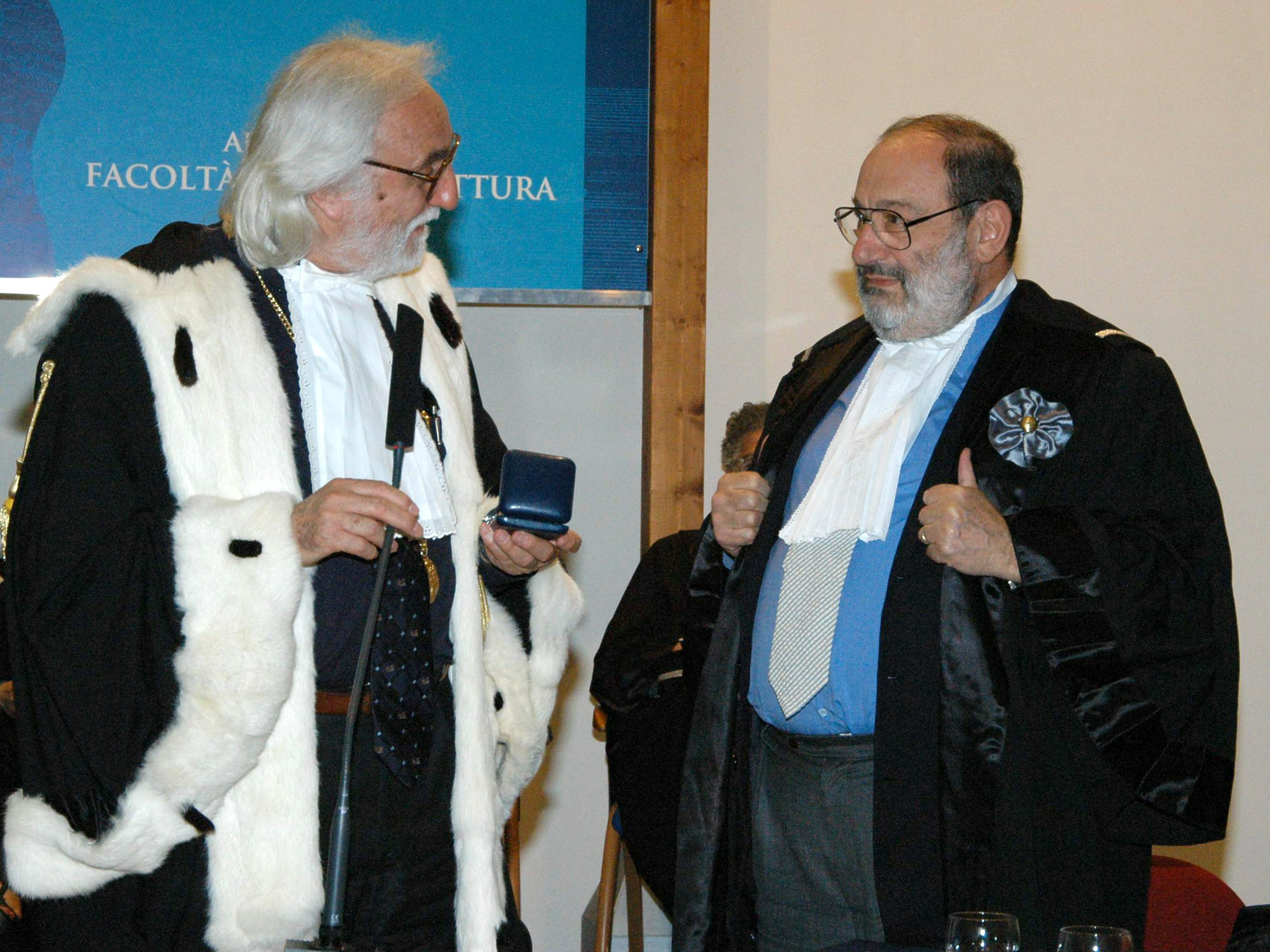 Umberto Eco receives the honoris causa degree in architecture at the Mediterranean university of Reggio Calabria from rector Alessandro Bianchi